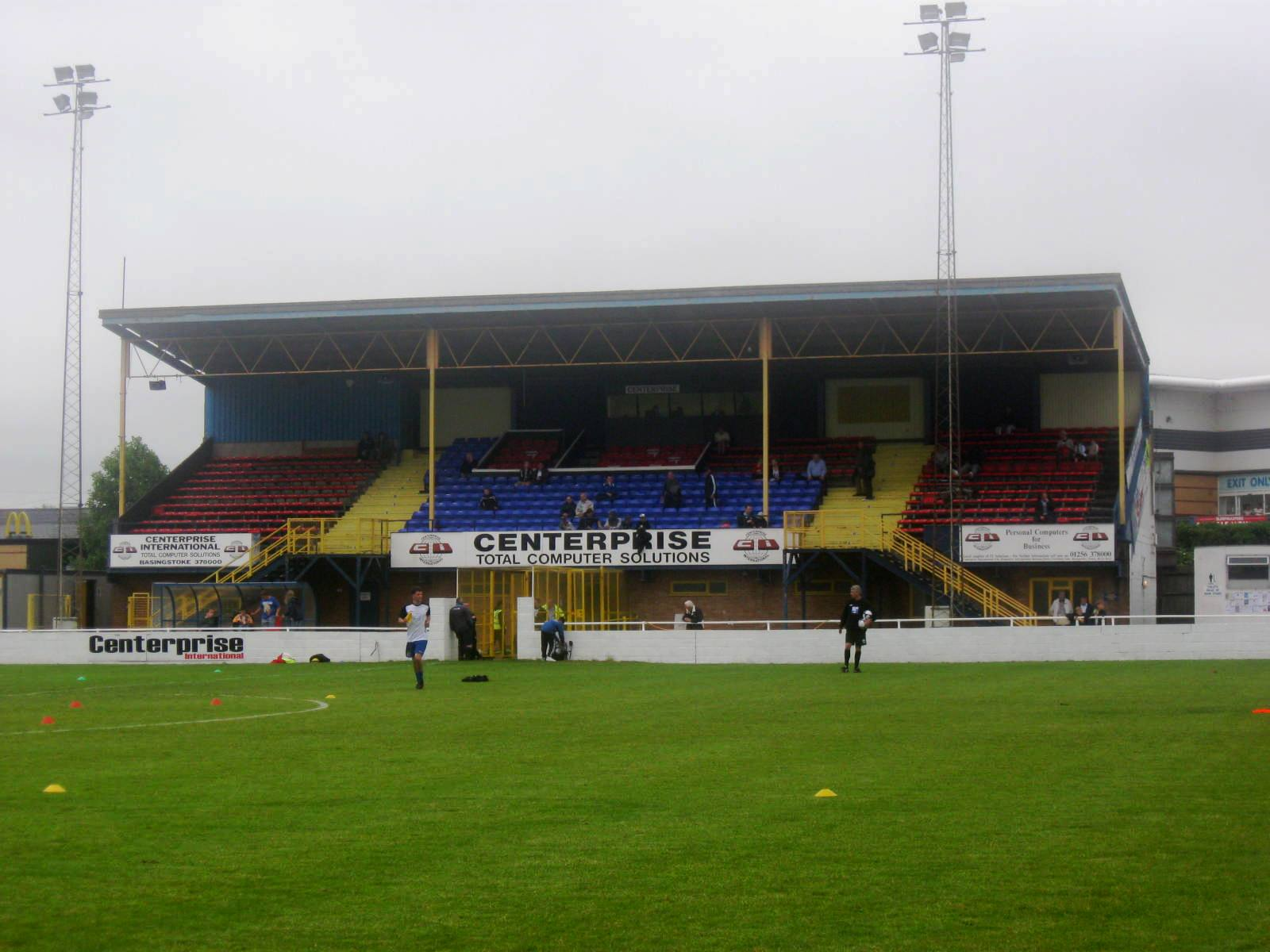 The main stand at The Camrose, home of Basingstoke Town